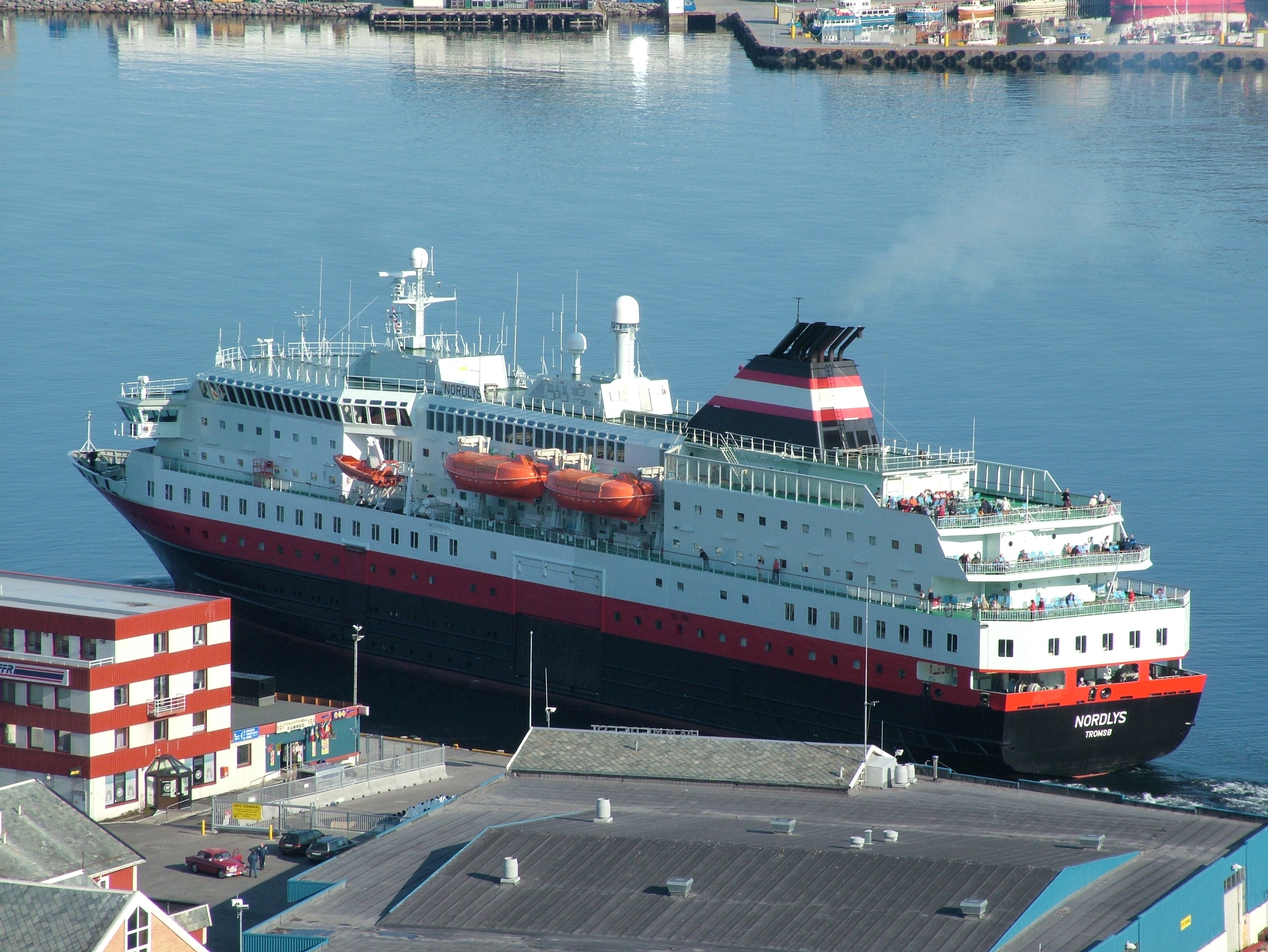 The Hurtigruten-Ship MS Nordlys in Hammerfest.